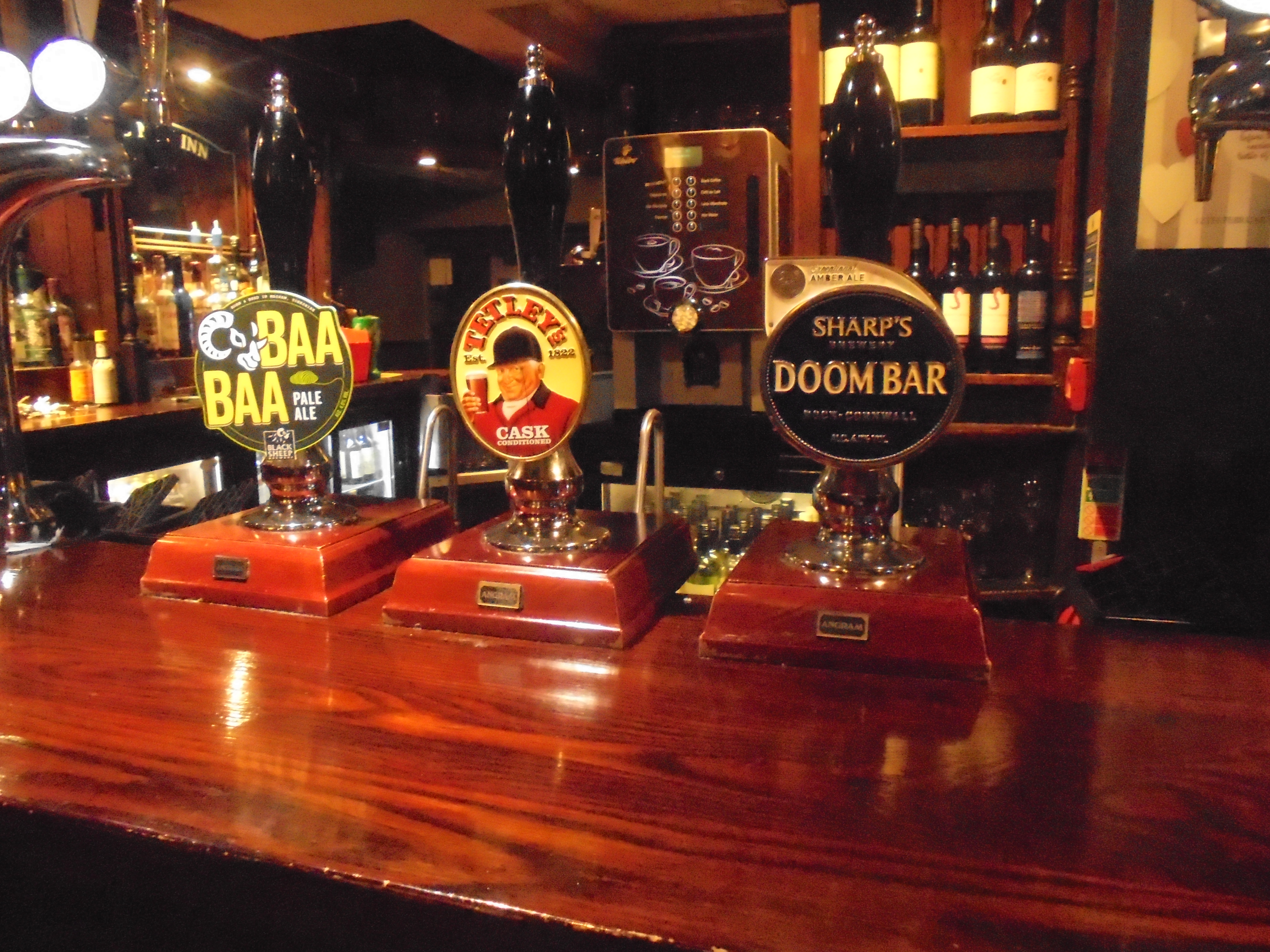 Interior of the New Inn, Wetherby, West Yorkshire. Taken on the night of Sunday the 27th of January 2019.